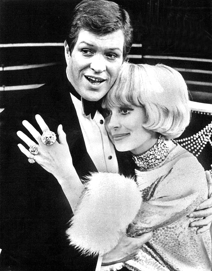 Publicity photo of Carol Channing and Peter Palmer in Broadway musical, Lorelei.